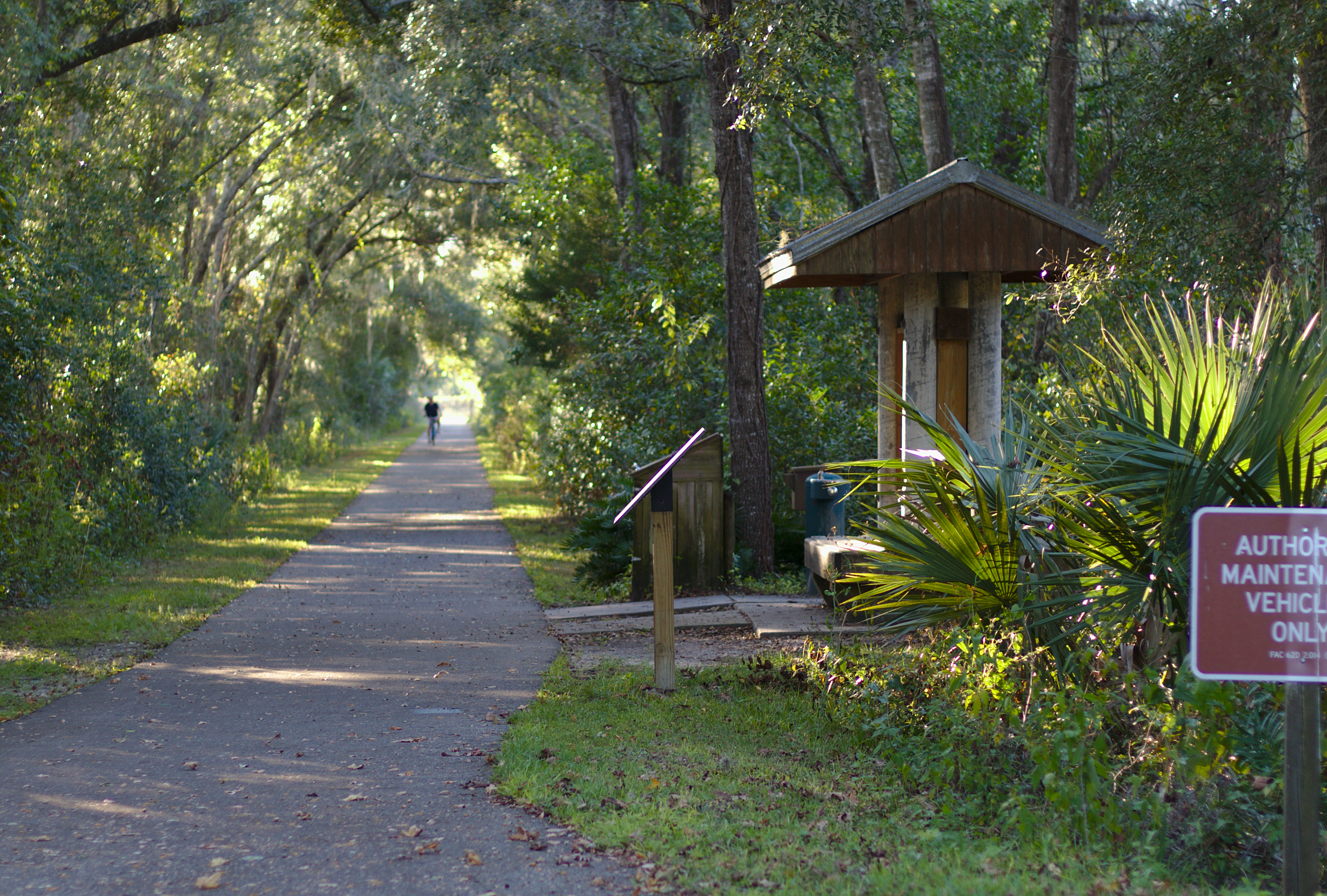 Gainesville-Hawthorne Trail, Hawthorne Entrance in October 2018. This is the beginning of the paved trail that leads to the parking area.